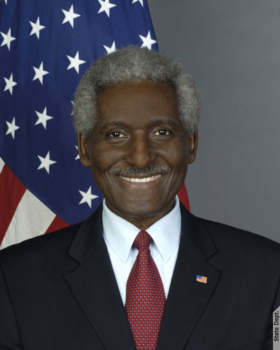 Larry Palmer, U.S. Ambassador to Barbados and the Eastern Caribbean, 2012